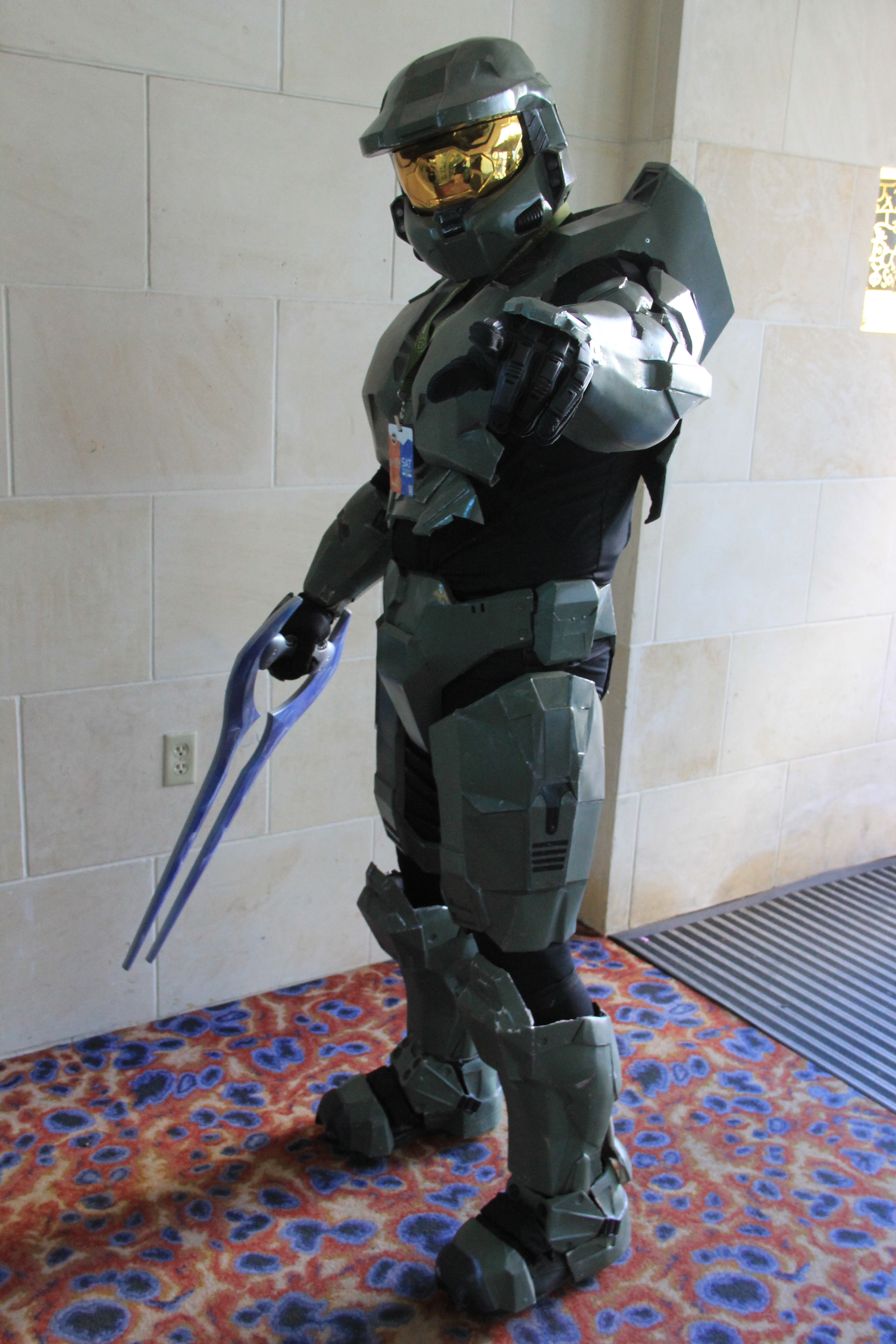 Master Chief Taken on day 2 or 3 of PAX South 2015.